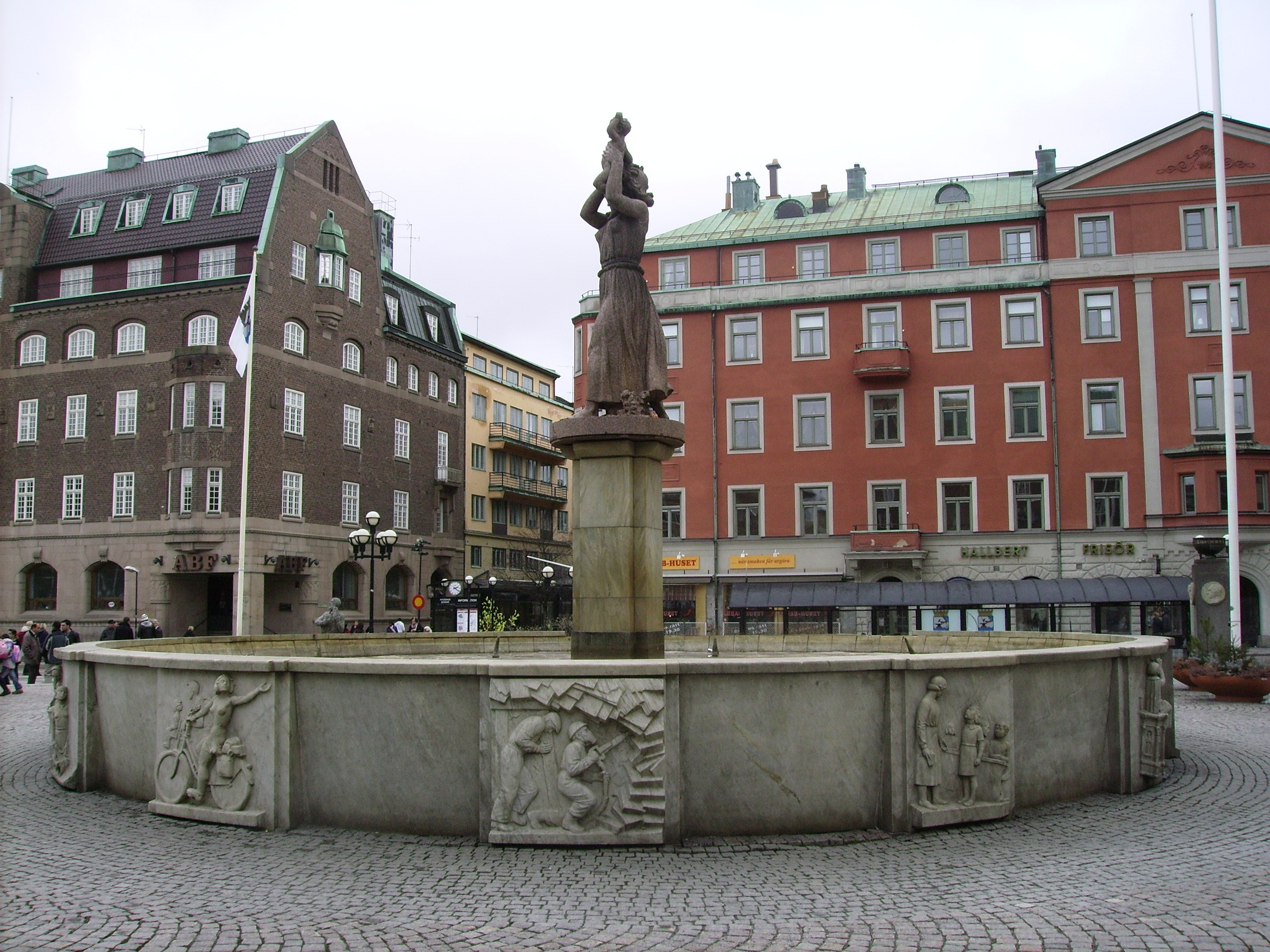 Picture of Fristadstorget in Eskilstuna. "The honor and pleasure of work" is a well located on Fristadstorget in Eskilstuna. It was made by Ivar Johnsson in 1942.